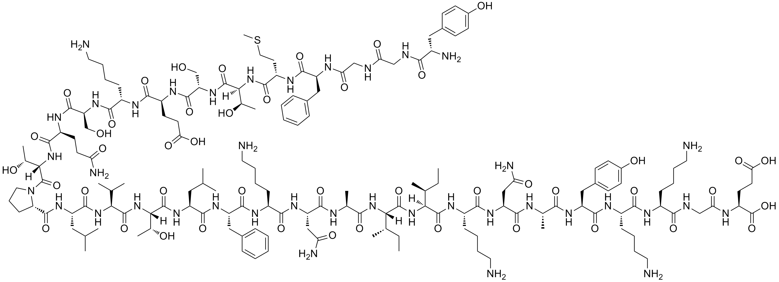 Chemical structure of beta-endorphin